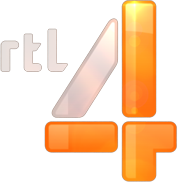 Logo RTL4